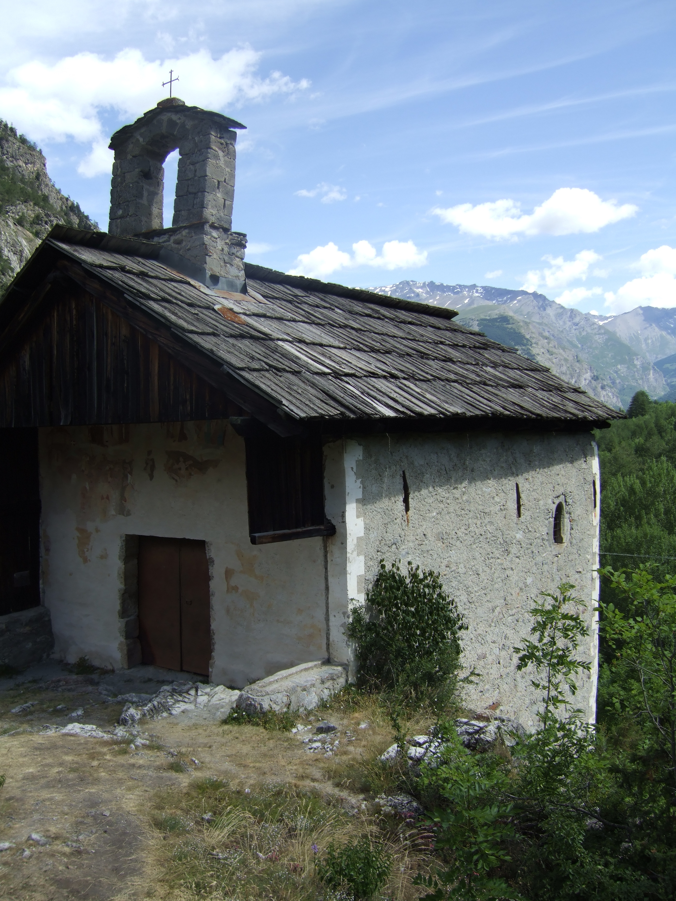 San Sisto's Chapel - Melezet (Bardonecchia)